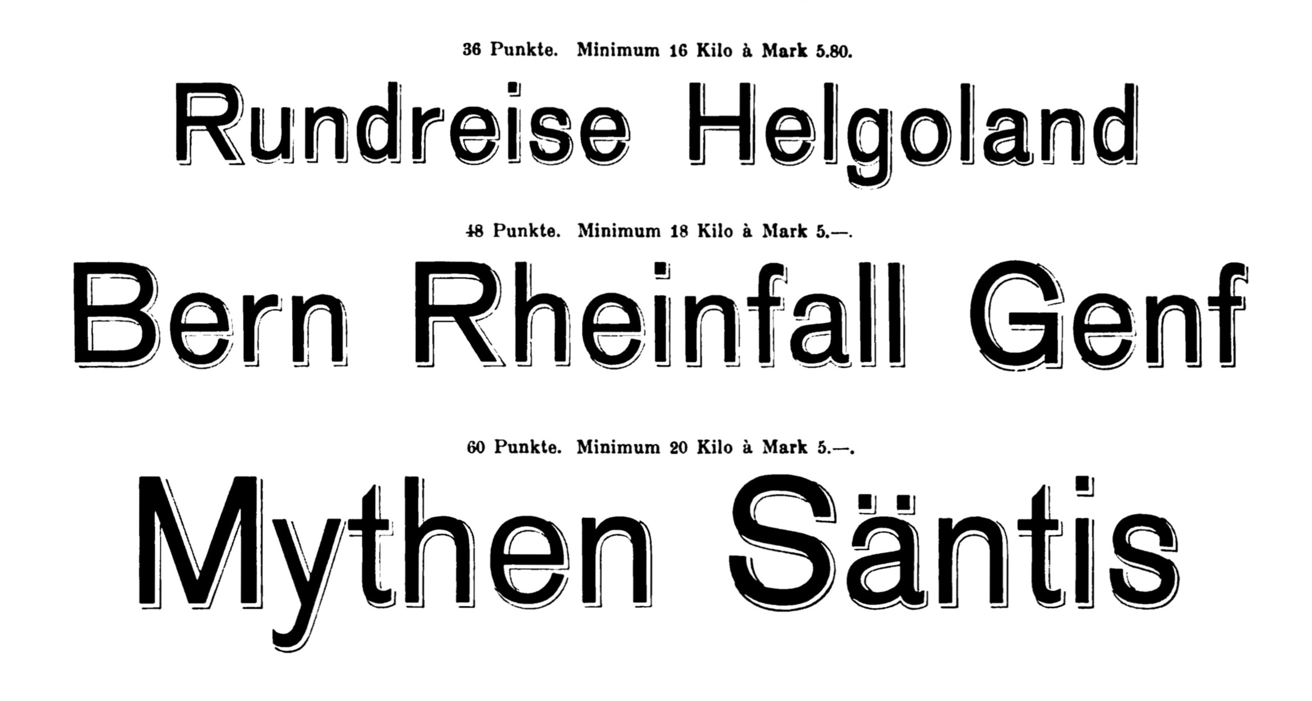 Specimen image of "Schattierte Grotesk", released by the Bauer Type Foundry of Stuttgart, Germany in 1896